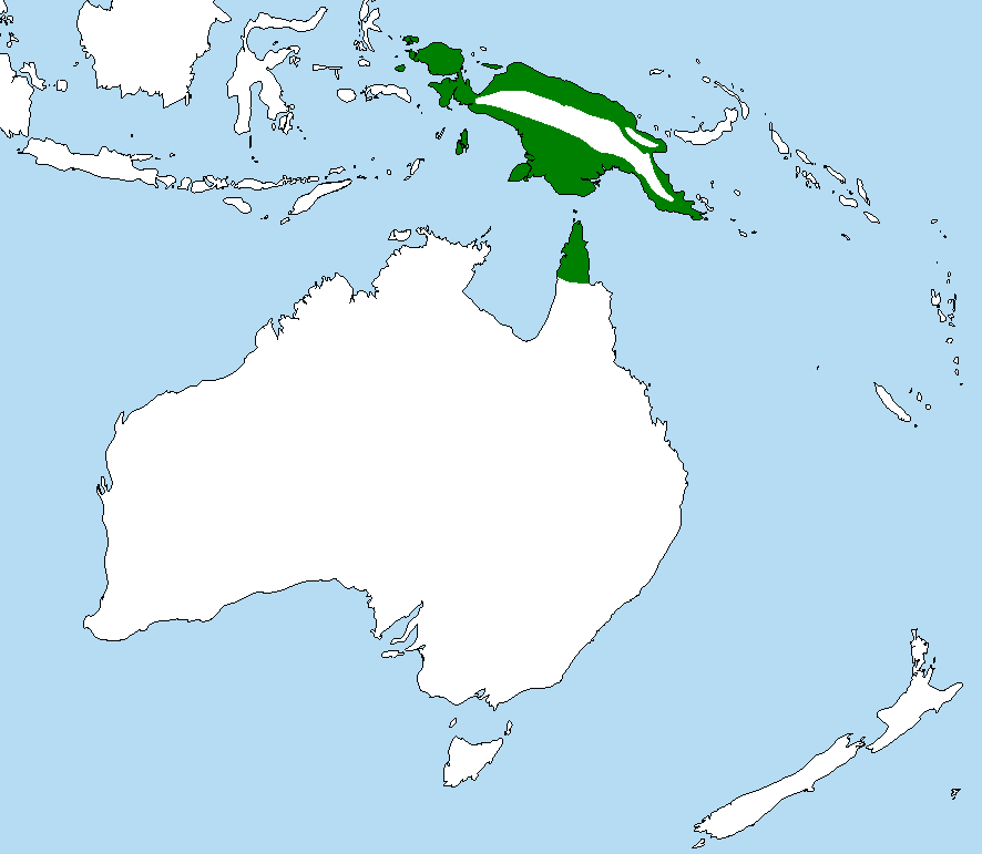 Distribution of the Palm Cockatoo Probosciger aterrimus Based on Image:A large blank world map with oceans marked in blue.PNG, distribution details from Handbook of the Birds of the World 4: 271.